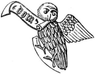 Representation of Bishop Hugh Oldham's "owl-dom" rebus, as displayed as a stone carving in his chantry in Exeter Cathedral